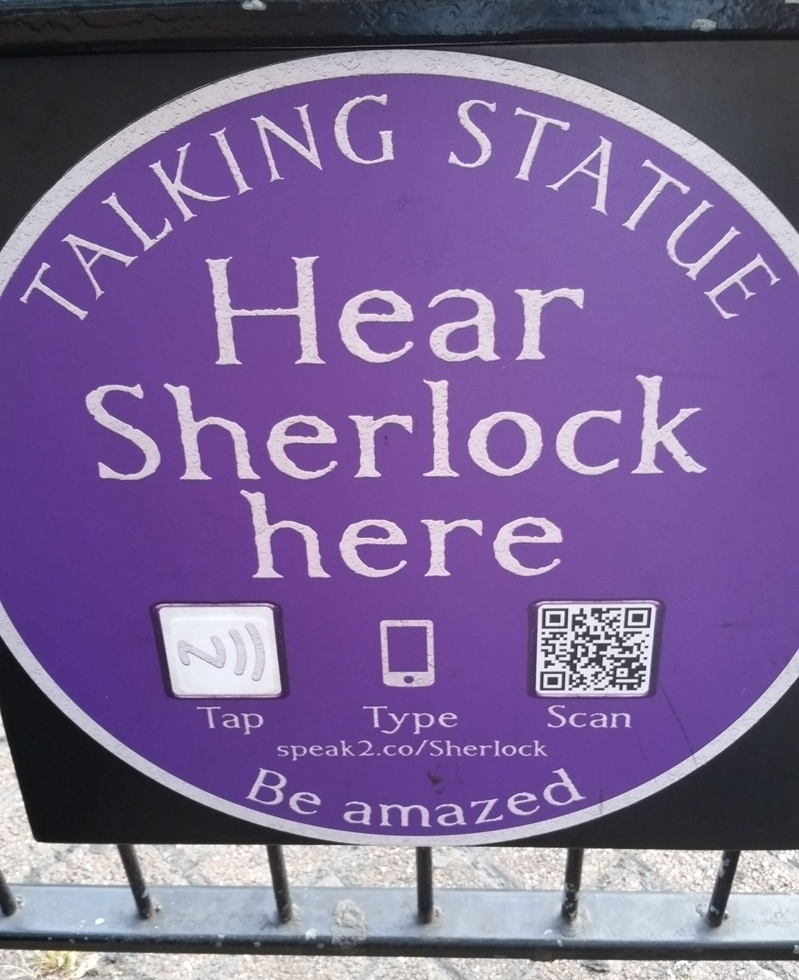 An image of the public plaque or tag enabling passers-by to scan a QR code to receive interactive audio from the Statue of Sherlock Holmes on their mobile devices